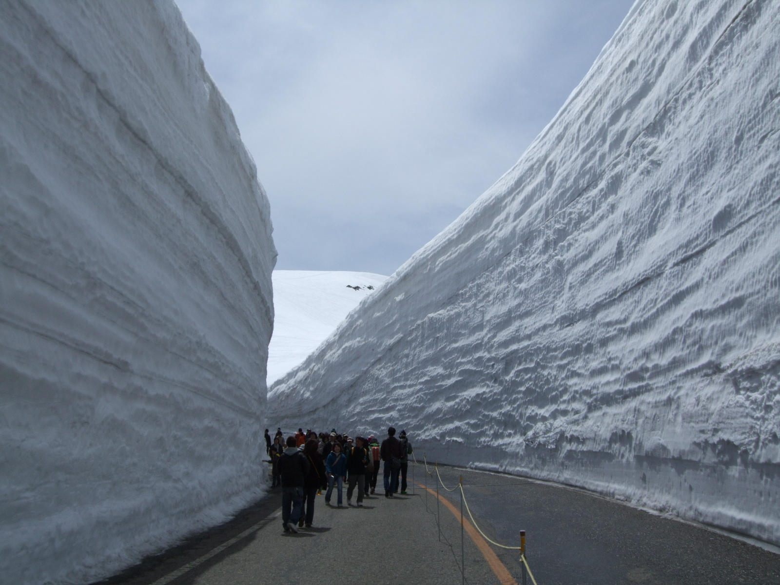 Yuki no otani (Great canyon of snow) on the Tateyama Toll Road, Tateyama Town, Toyama Prefecture, Japan